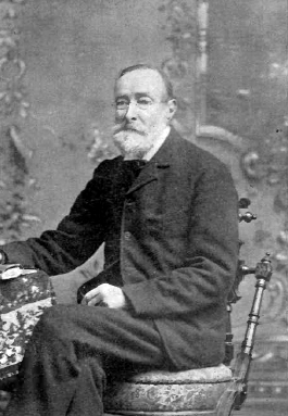 Cornelius Hendricksen Kortright Source: The Canadian album : men of Canada; or, Success by example, in religion, patriotism, business, law, medicine, education and agriculture; containing portraits of some of Canada's chief business men, statesmen, farmers, men of the learned professions, and others; also, an authentic sketch of their lives; object lessons for the present generation and examples to posterity (Volume 1) (1891-1896) Creator: Cochrane, William, 1831-1898 Creator: Hopkins, J. Castell (John Castell), 1864-1923 Publisher: Brantford, Ont. : Bradley, Garretson & Co. Date: 1891-1896